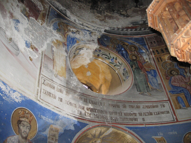 Gorni Voden Monastery Fresco